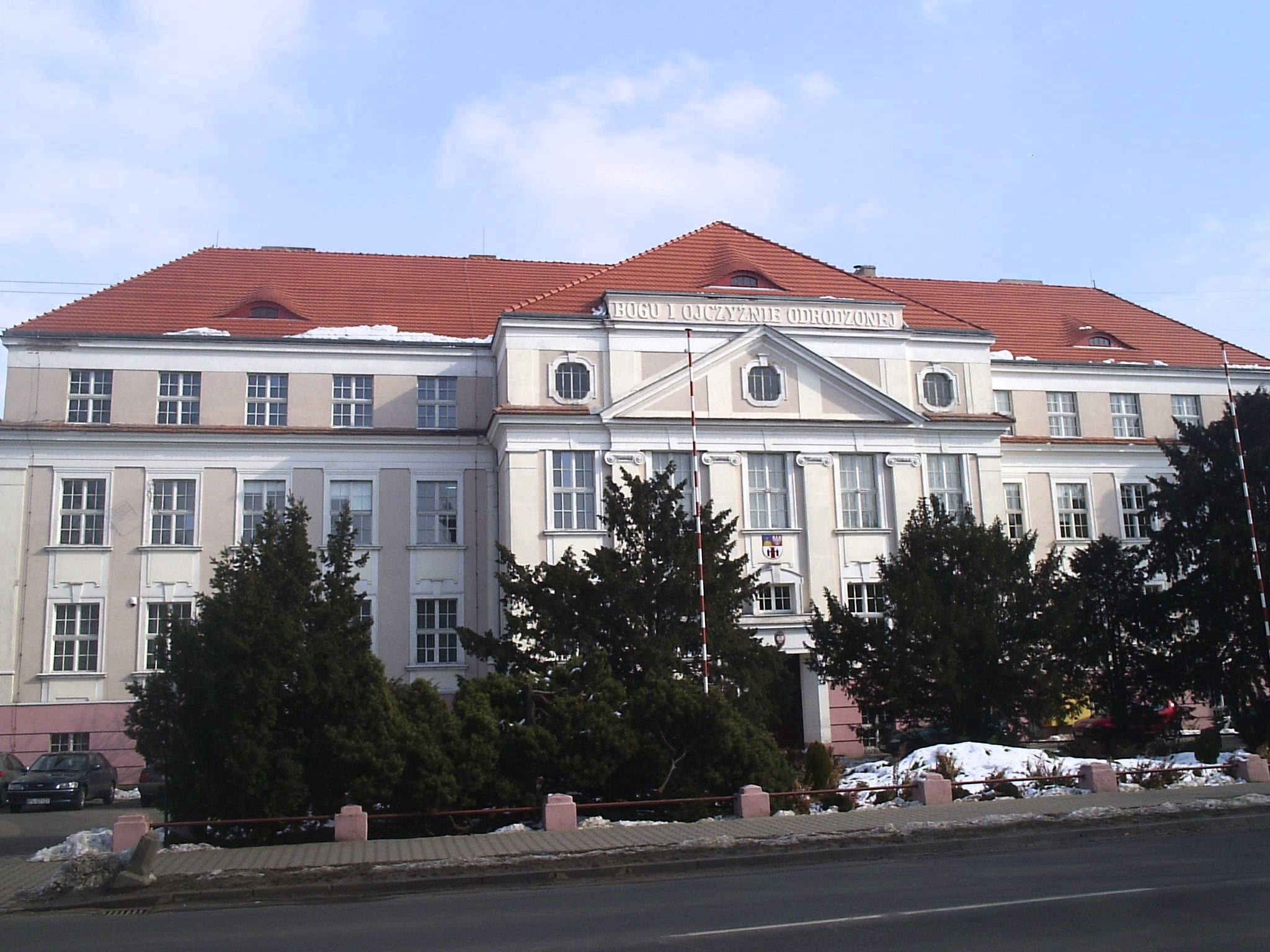 Grammar School in Gostyń, Poland